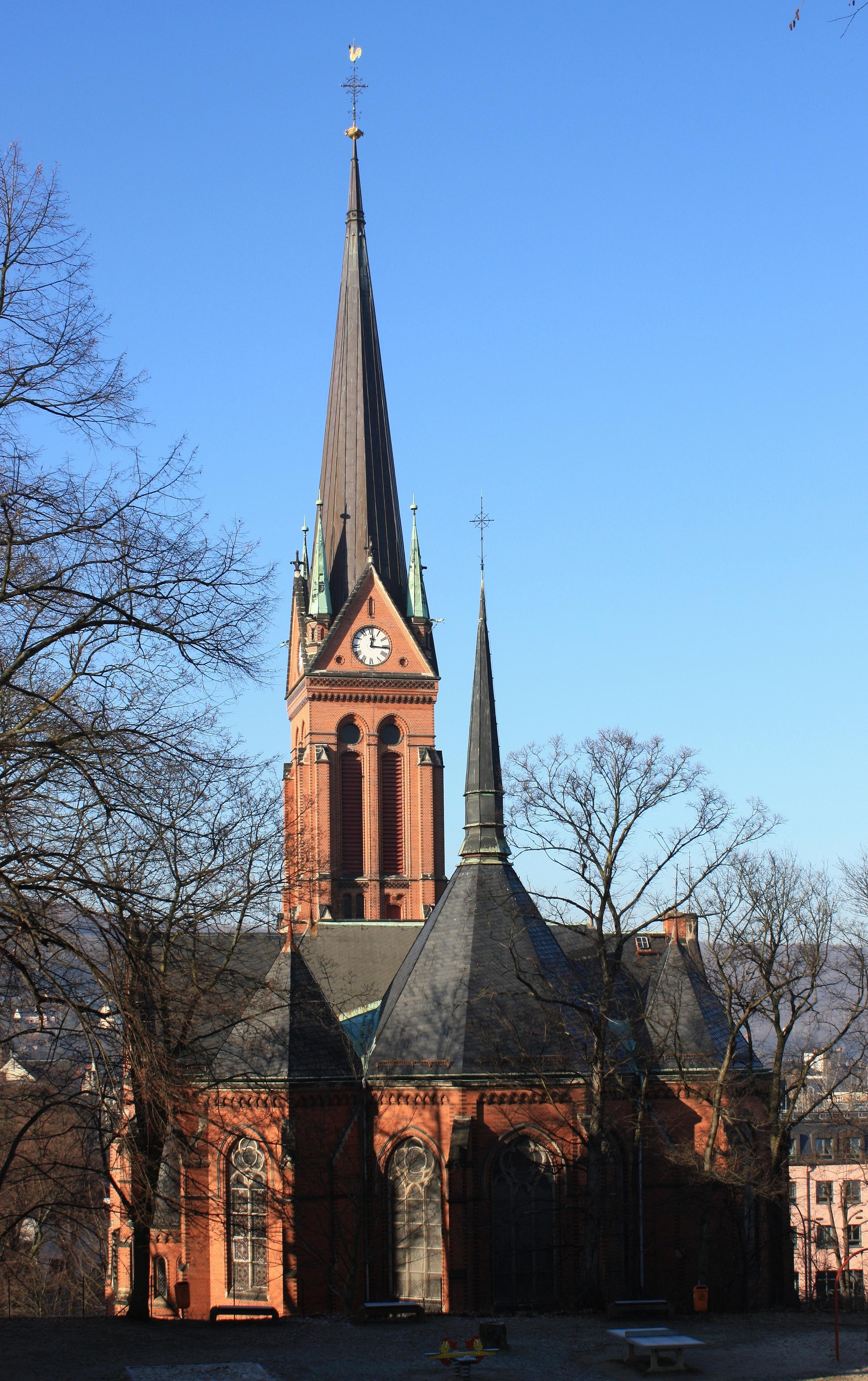 Aue, Sachsen: Nikolaikirche church, view from E